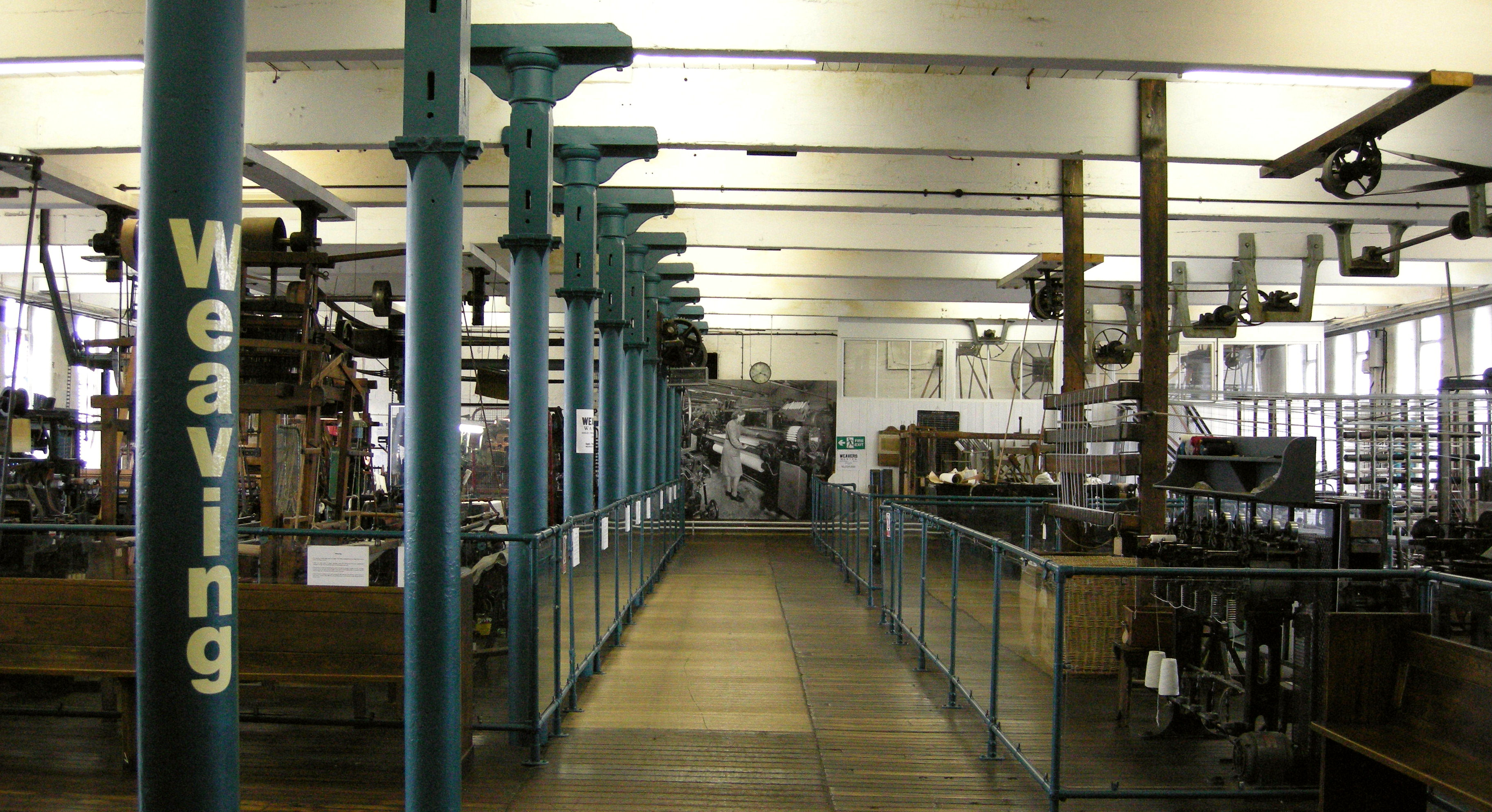 Weaving gallery at Bradford Industrial Museum, Bradford, West Yorkshire, England. 53.48'.40".N; 1.43'.16".W.